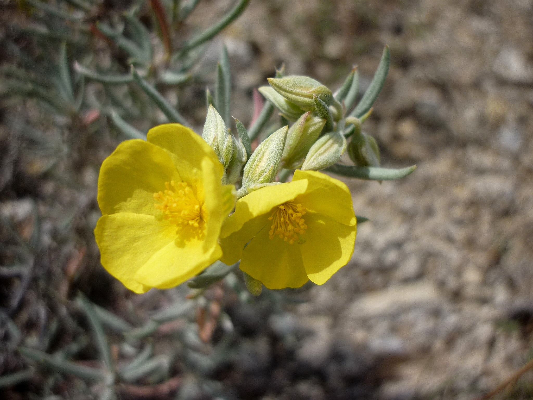 Helianthemum syriacum. In Torà (Segarra-Catalunya). To 510 m. altitude